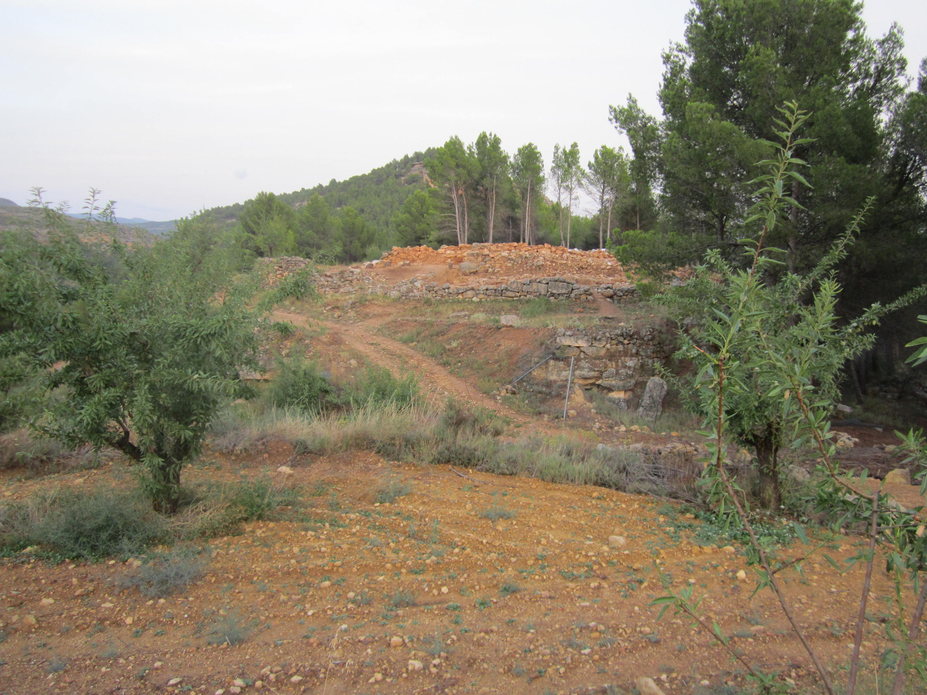 Entrance of the La Celadilla archaeological site